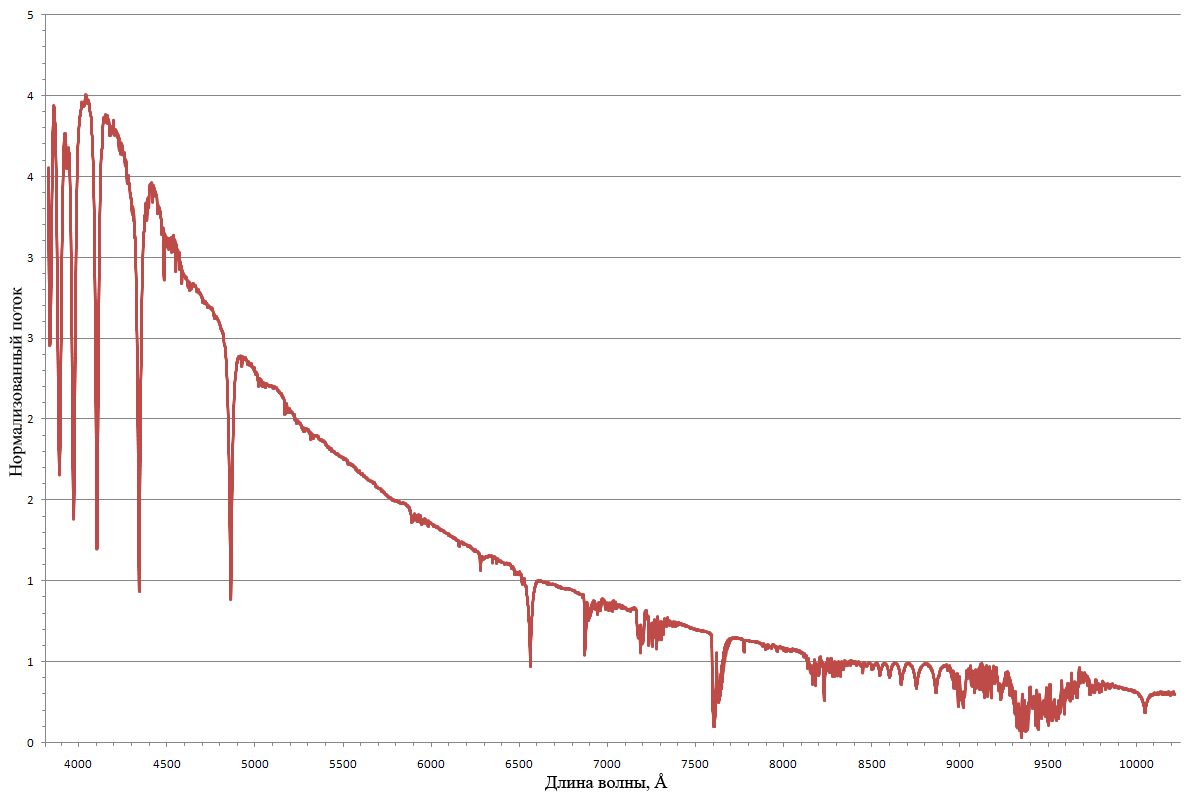 Vega's spectrum in range 3820—10200 Å. left part — intensive hydrogen lines, right — oxygen and hydrogen from Earth atmosphere